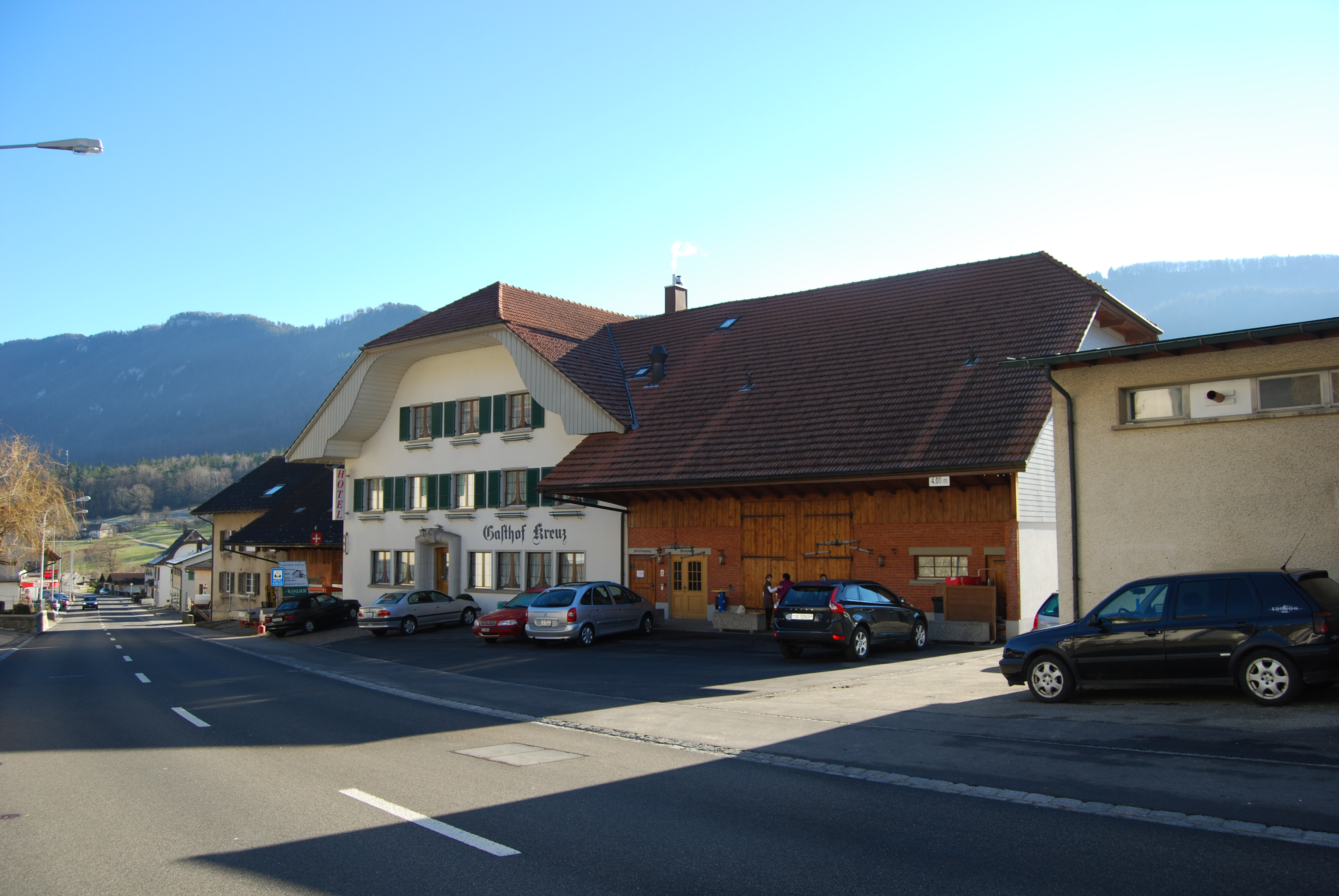 Gasthaus Kreuz at Welschenrohr, canton of Solothurn, SwitzerlandEsperanto: Gastejo Kreuz en Welschenrohr, Kantono Soloturno, Svislando